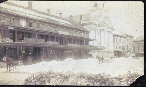 Schoolhouse Blizzard